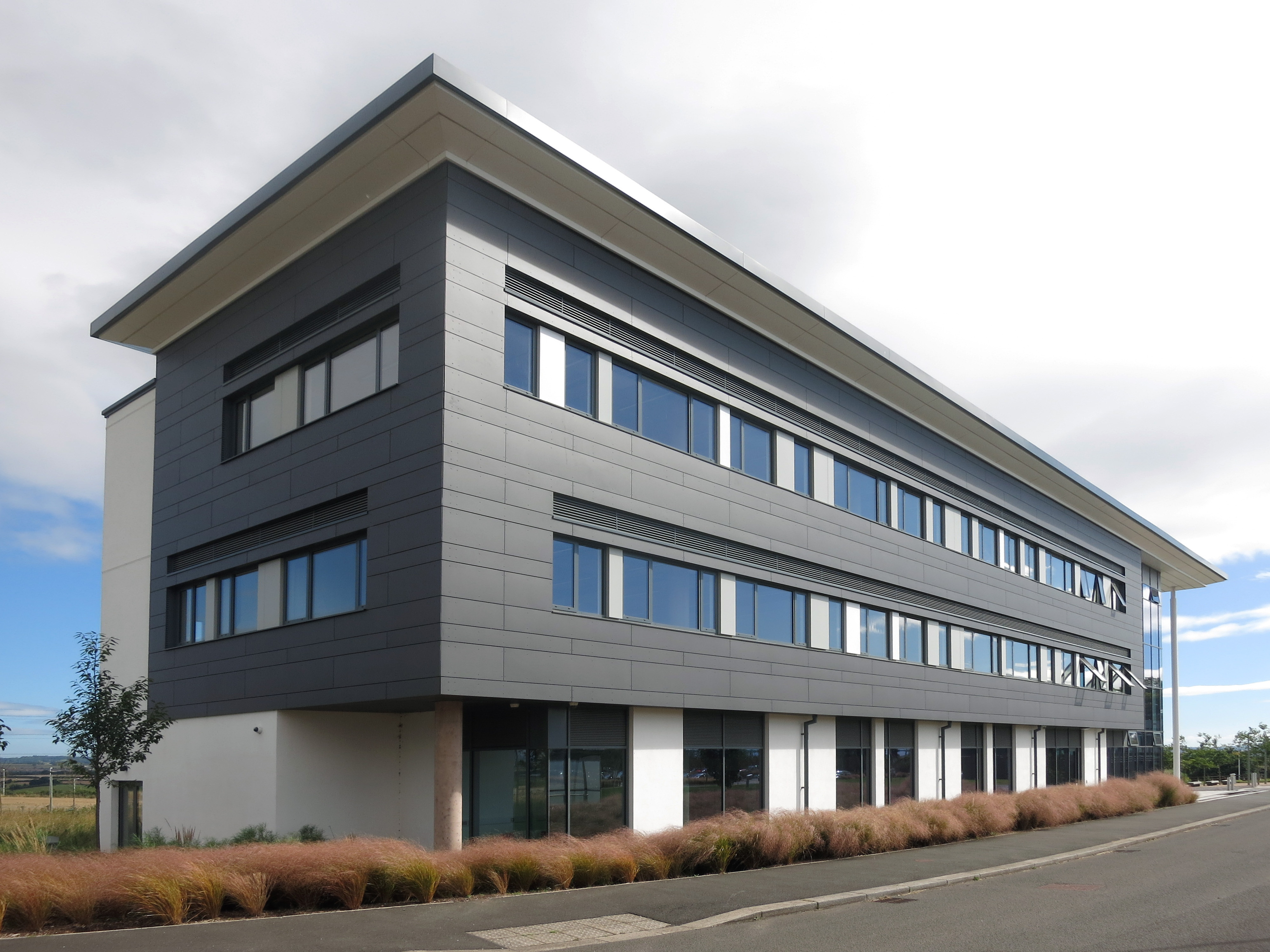 New Offices, Exeter Science Park